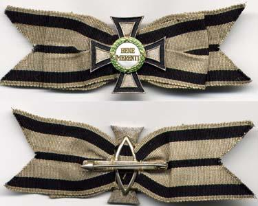 Order of Bene Merenti of Romania for ladies